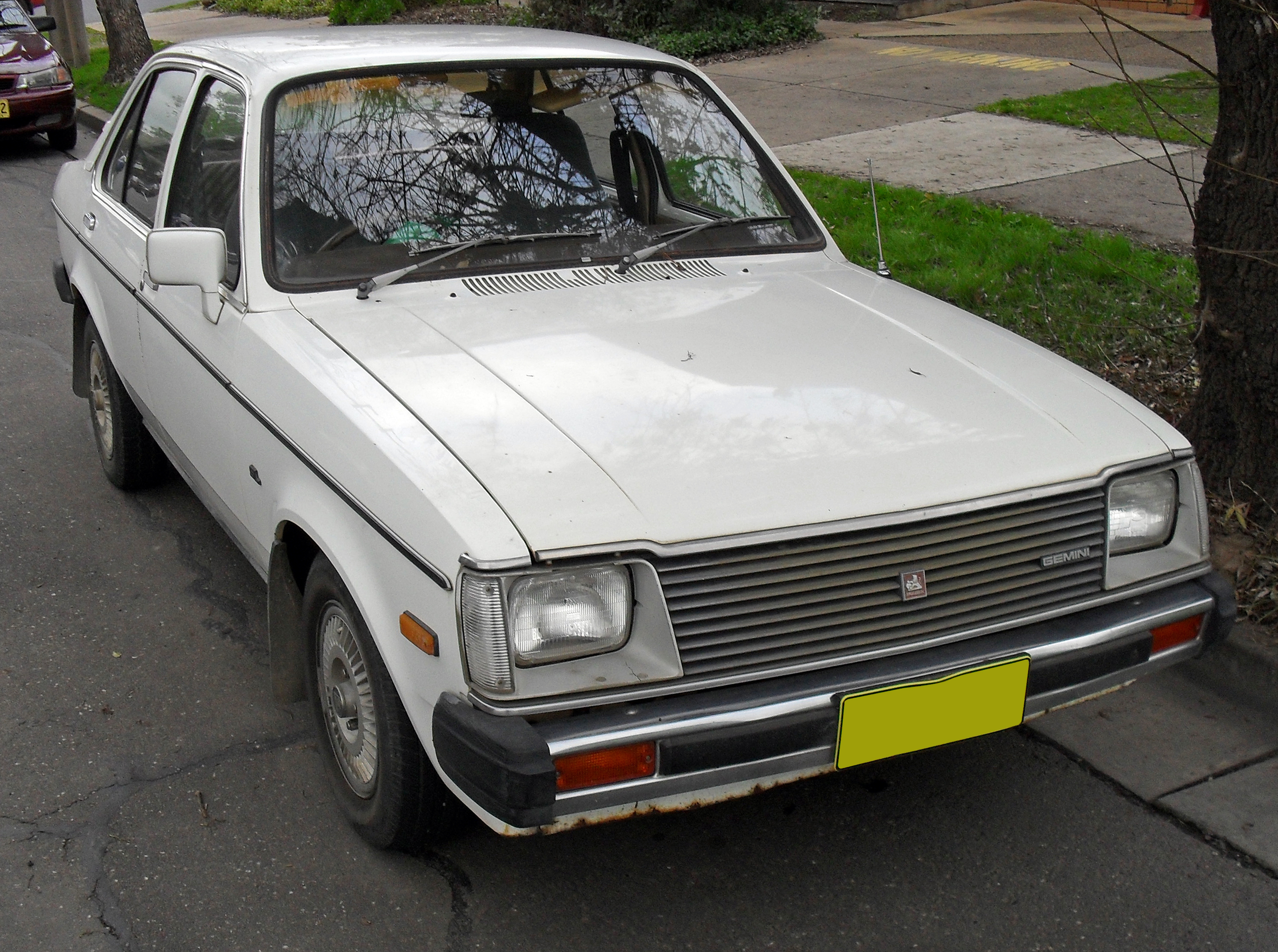 1979-1982 Holden TE Gemini SL sedan photographed in New South Wales, Australia.